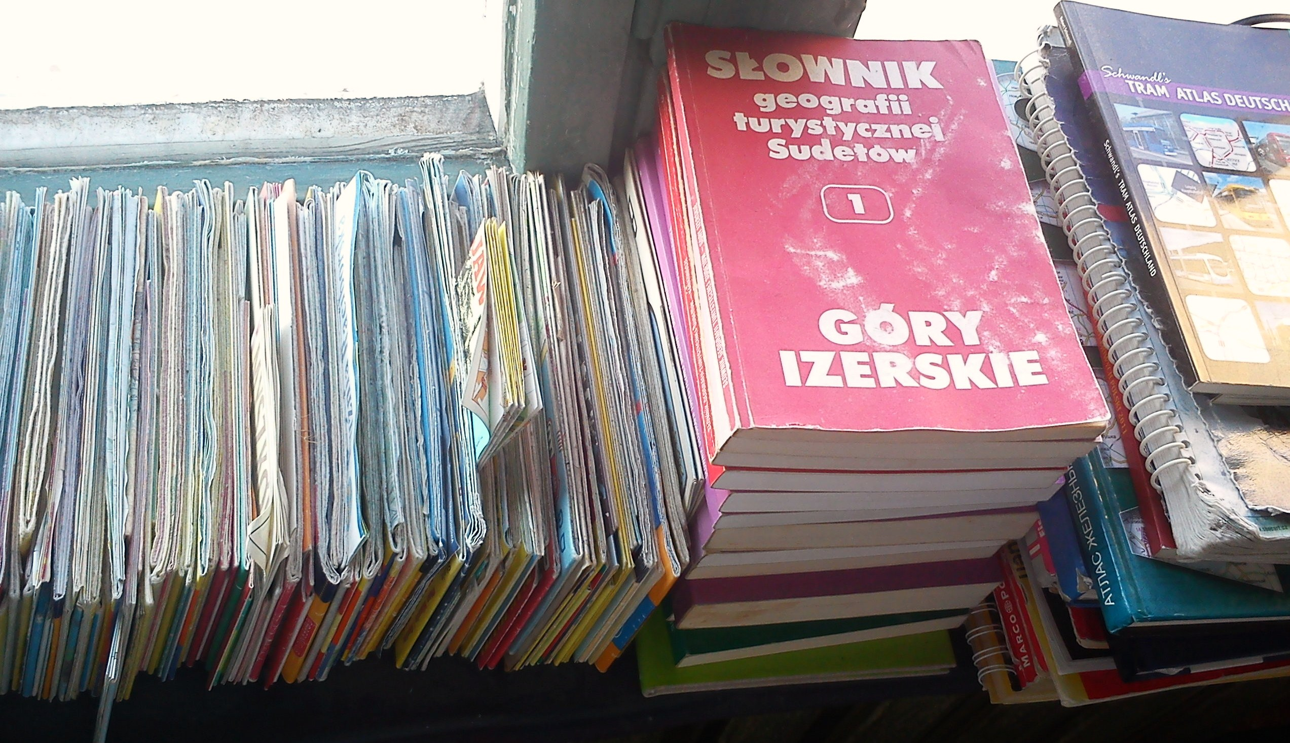 My maps and guides.